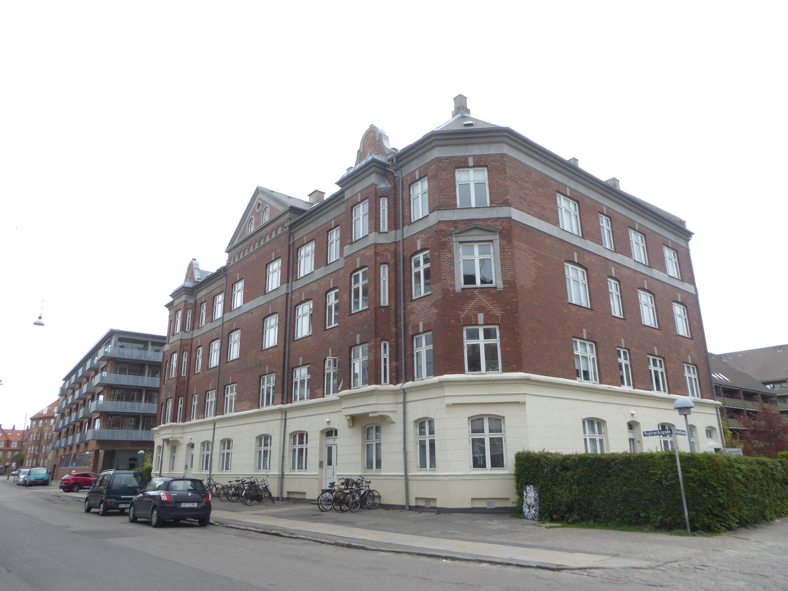 The apartment building Teglgaarden at Teglværksgade in Østerbro in Copenhagen.